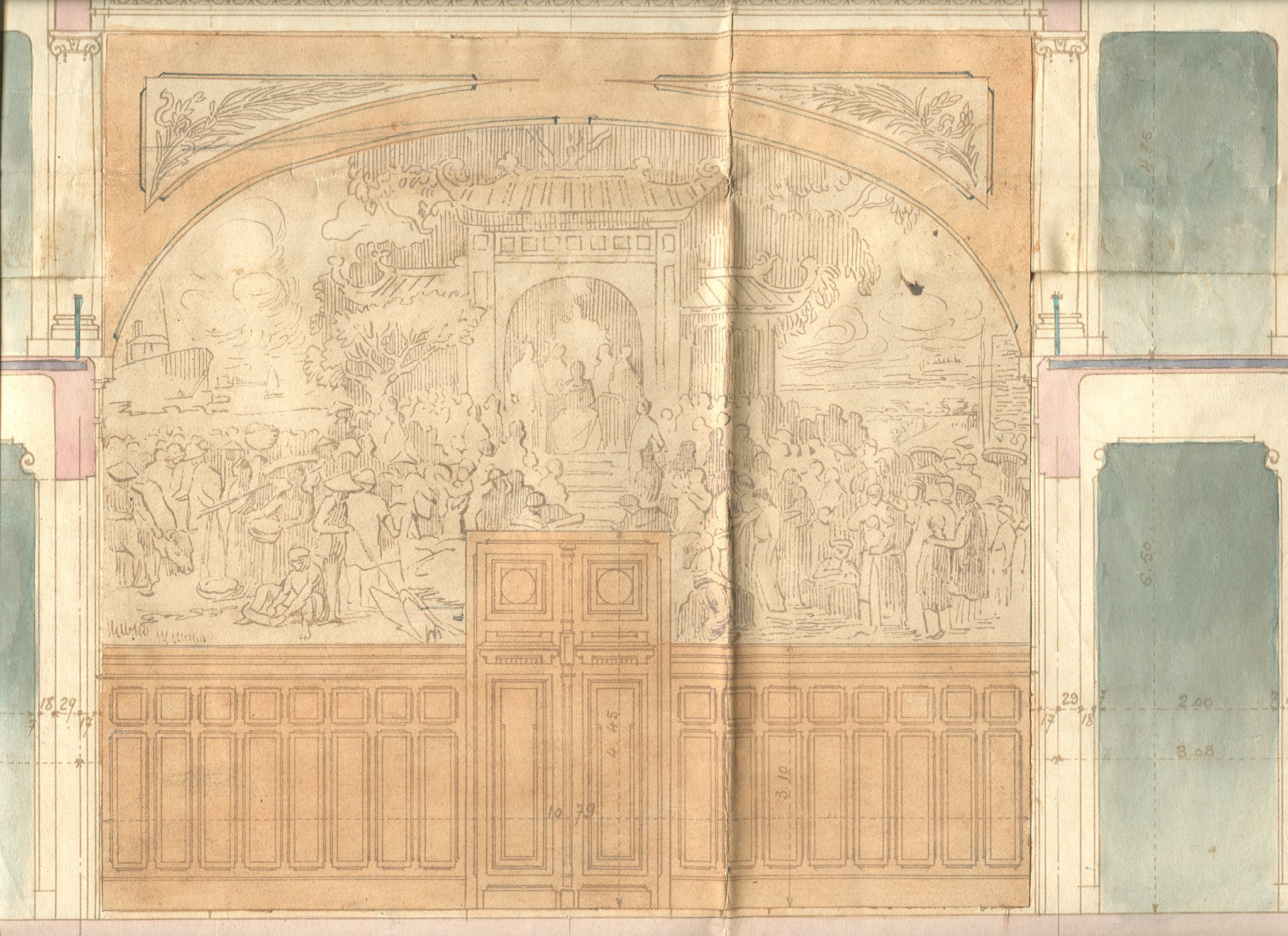 Sketch of fresco at University of Hanoi, 1922, by Victor Tardieu (1870 - 1937), signed by Victor Tardieu. This sketch is stored at Vietnam National Archives Center N1, No.372 Box 42. This is public work by Tardieu for the government of Indochina at Hanoi.